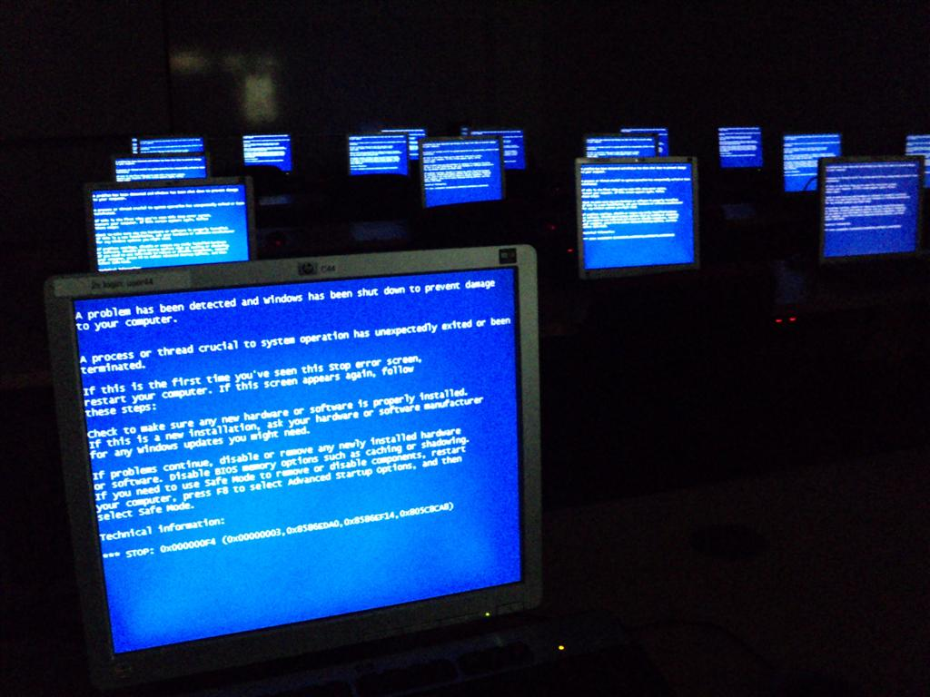 This is a photo of a room full of computers all showing the same windows error message at the Nanyang Technological University in Singapore